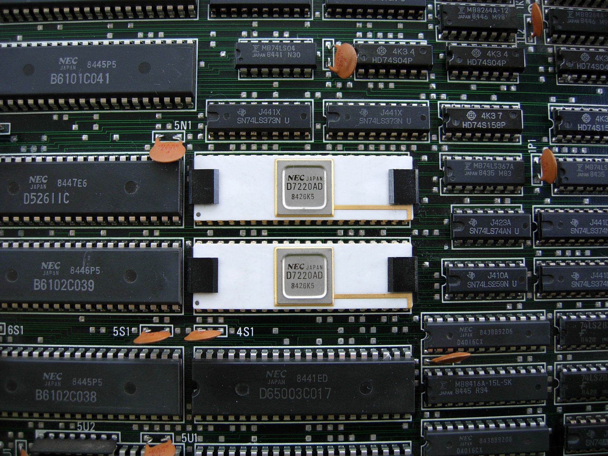 NEC µPD7220 on the mainboard in NEC PC-9801F(NEC PC-9801).